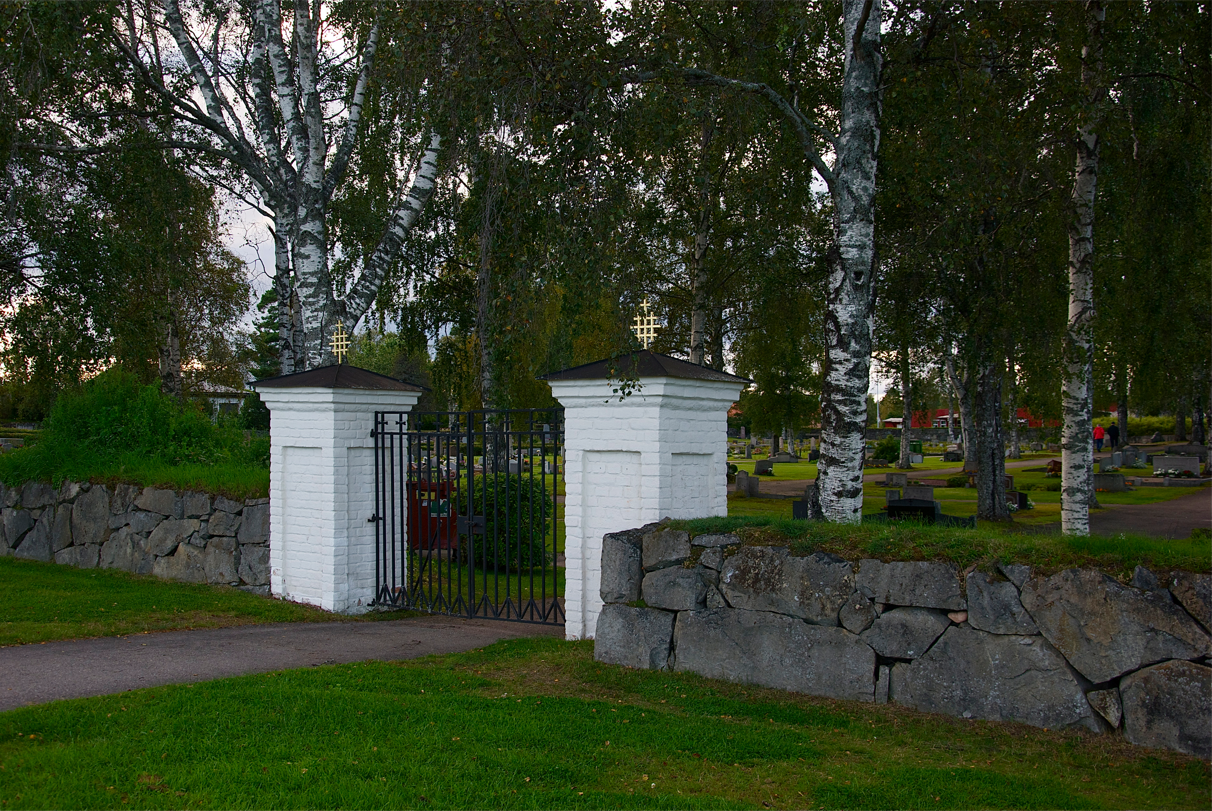 Entrance to Sveg cemetery, Sveg (Härjedalen).